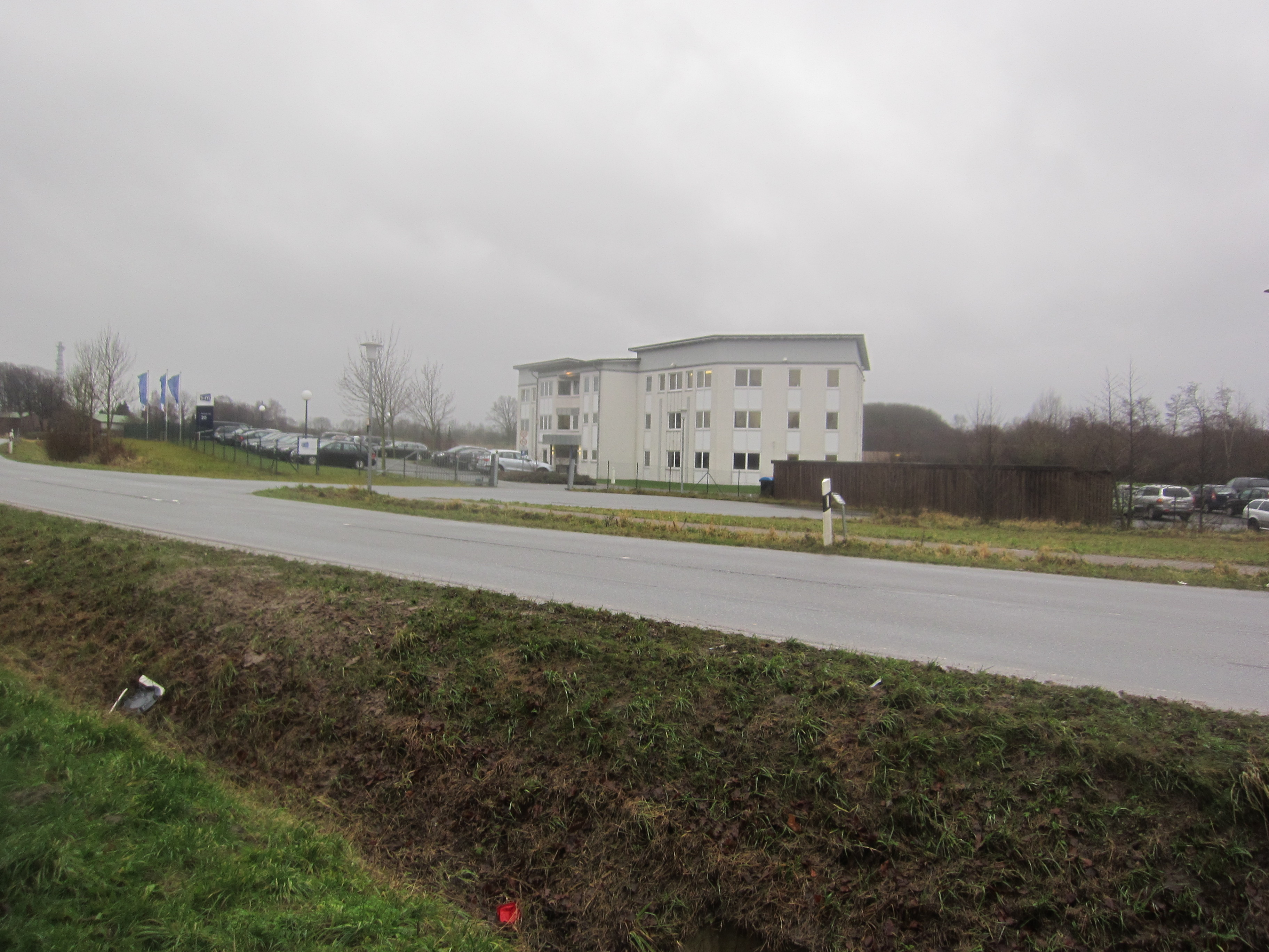 Roadside ditch in Melsdorf